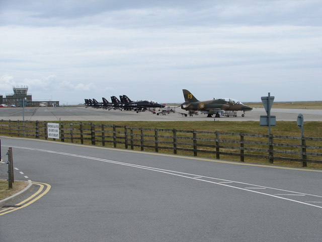 RAF Valley, Hawk Aircraft Line-up A line-up of Hawks at RAF Valley; collective noun A Flight of Hawks, or possibly a Stream of Hawks.